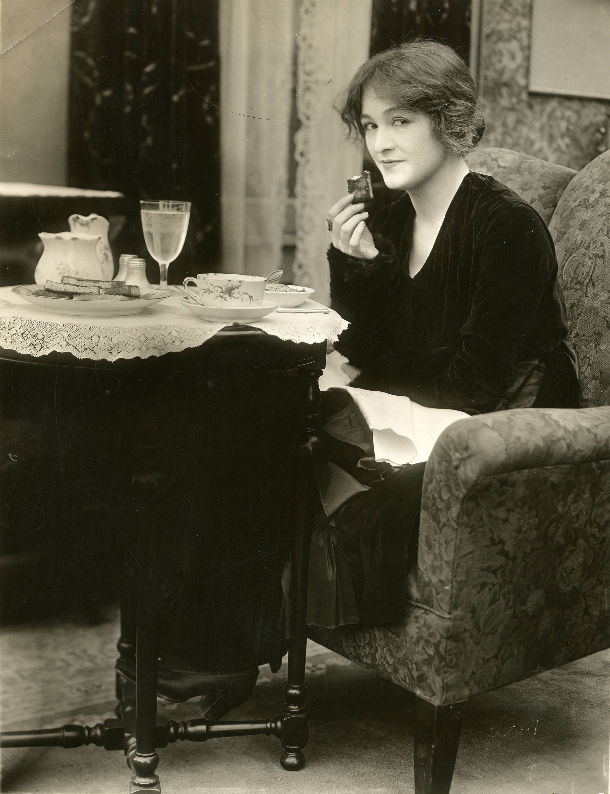 Film actress Gladys Brockwell. Subjects: actresses